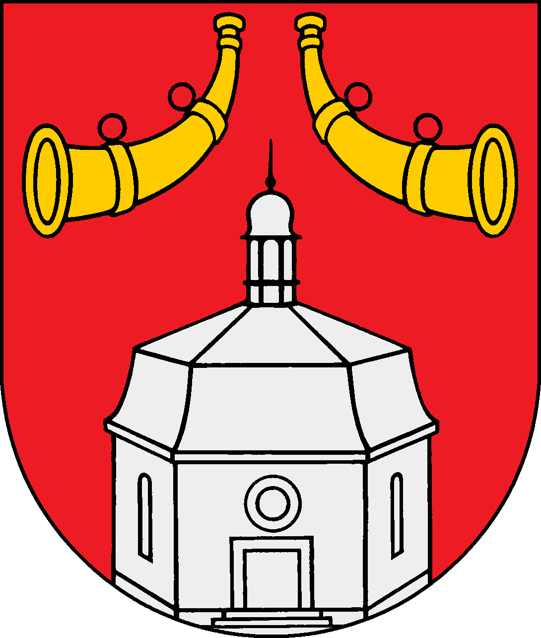 Coat of arms of the municipality Brande-Hörnerkirchen in Schleswig-Holstein, Germany.